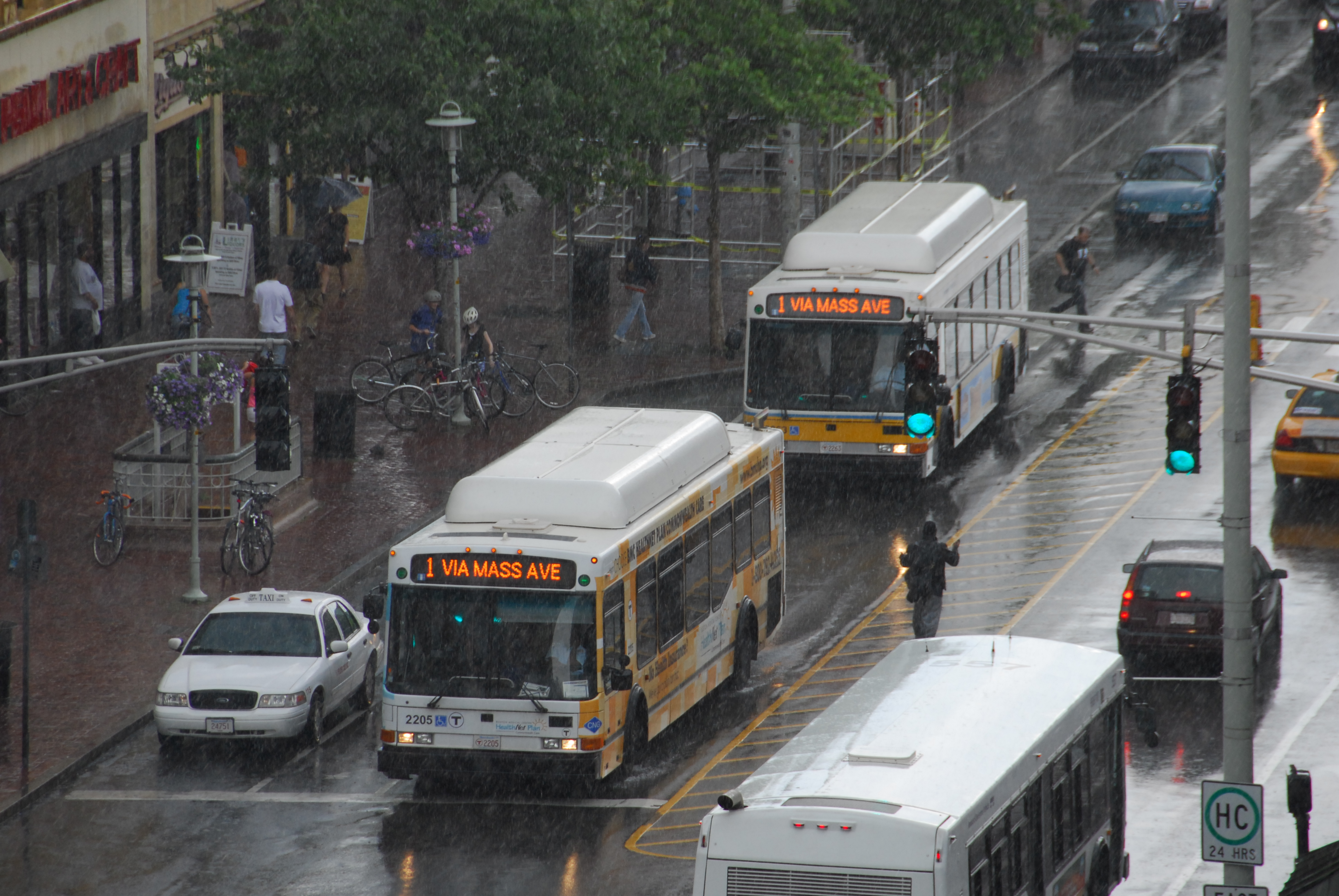 Two Harvard-bound #1 buses at Central Square, Cambridge